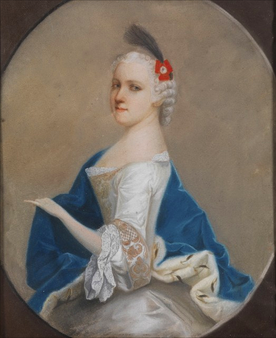 Selbstbildnis Markgräfin Karoline Luise von Baden pastel on parchment Height: 26 cm (10.2 in); Width: 21 cm (8.2 in) dimensions QS:P2048,26U174728;P2049,21U174728